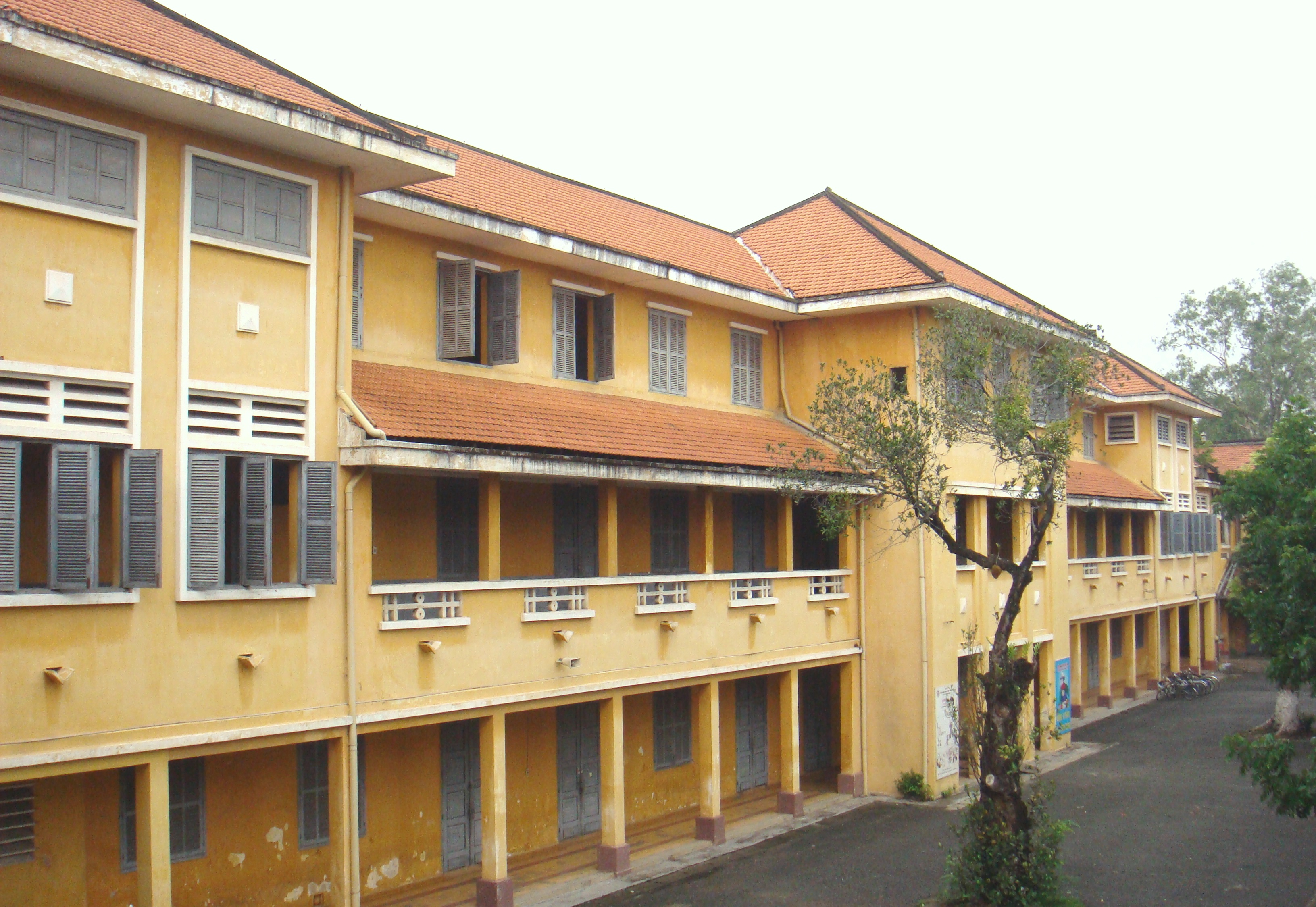 The image illustrates one of the main building in the architecture of Nguyen Thi Minh Khai senior high school. This building is near by Ba Huyen Thanh Quan street, so it's called Ba Huyen Thanh Quan Building (shortly: BaHuyen Building).